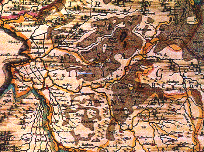 Fragment of a map by Janssonius from 1658, showing the early settlement of Oosterveen (Nieuwleusen).